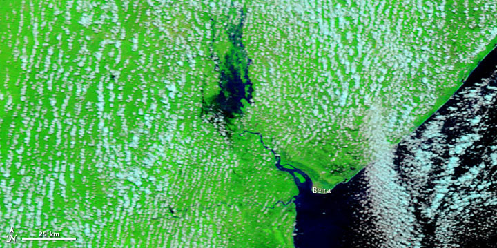 The Moderate Resolution Imaging Spectroradiometer (MODIS) on NASA’s Terra satellite captured this image of part of Sofala Province, around the city of Beira. The image uses a combination of infrared and visible light to increase the contrast between water and land. Vegetation appears bright green. Clouds appear sky blue. Water appears navy blue. Waters overflowing the banks of the Púnguè River create a big blue splotch northwest of Beira, and swell the river near the coast.